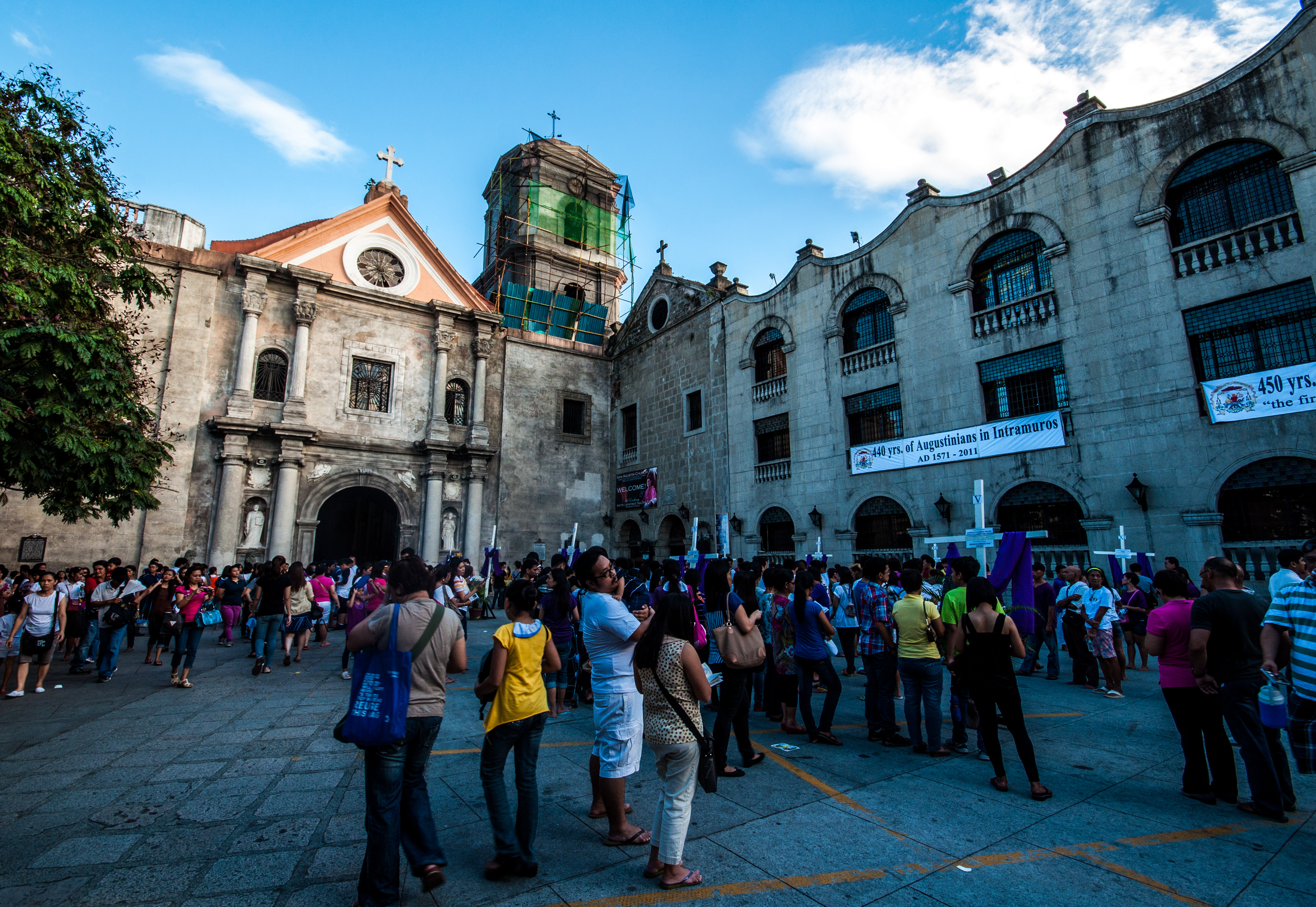 Located inside the walled city of Intramuros, Manila the San Agustin Church.